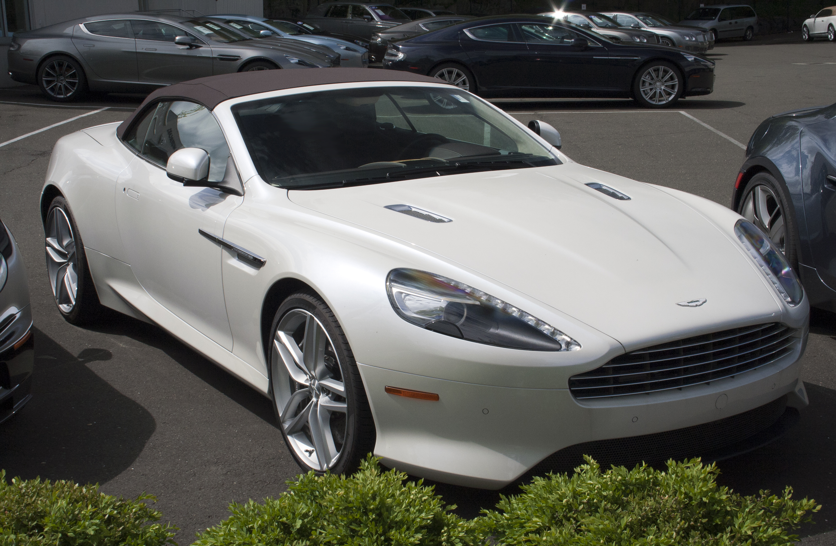 2012 Aston Martin Virage Volante